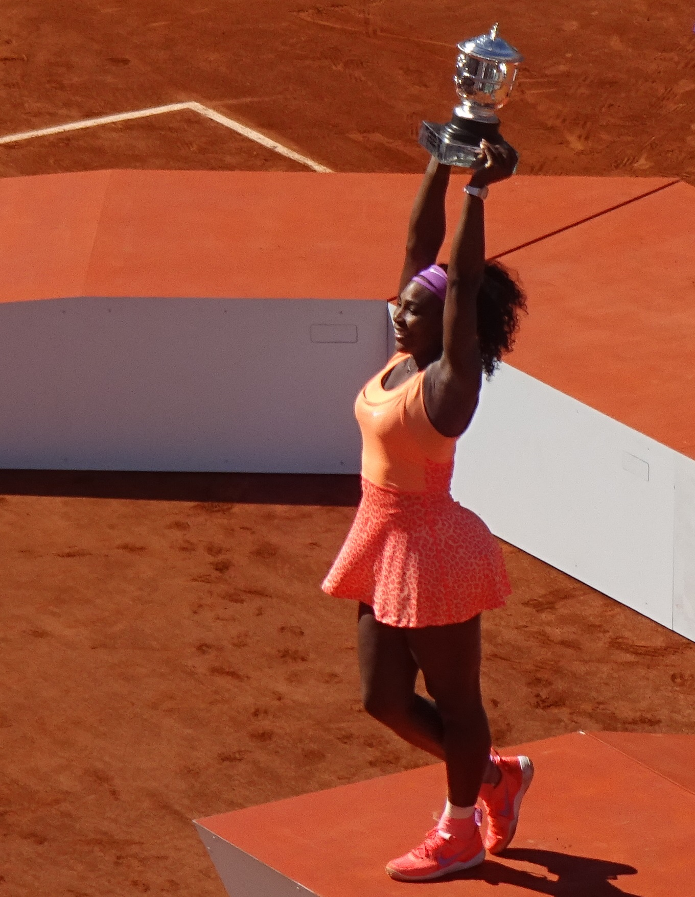 Serena Williams won her 20th grandslam singles title at the French Open 2015